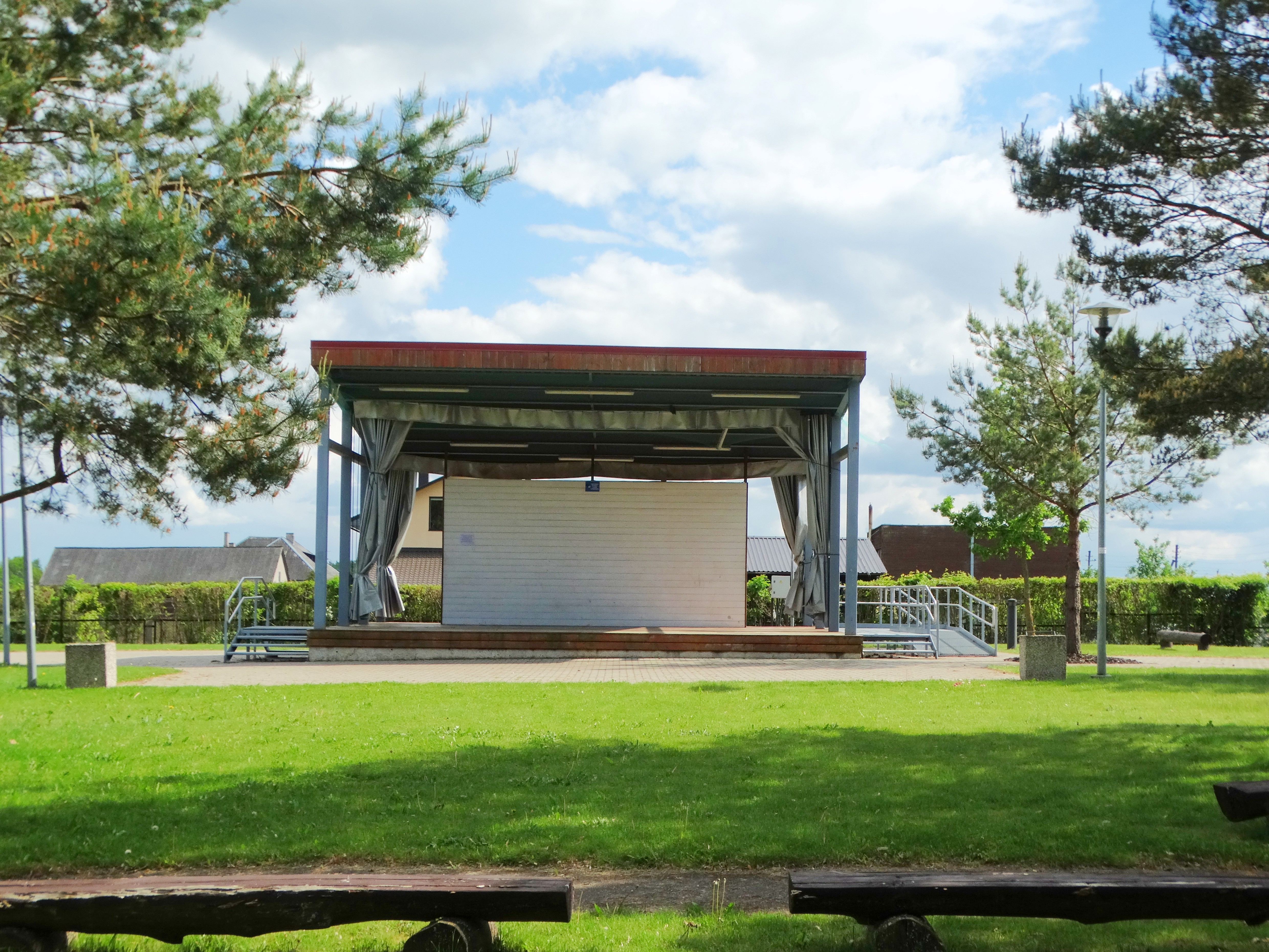 Piliuona, event scene, Kaunas District. Lithuania